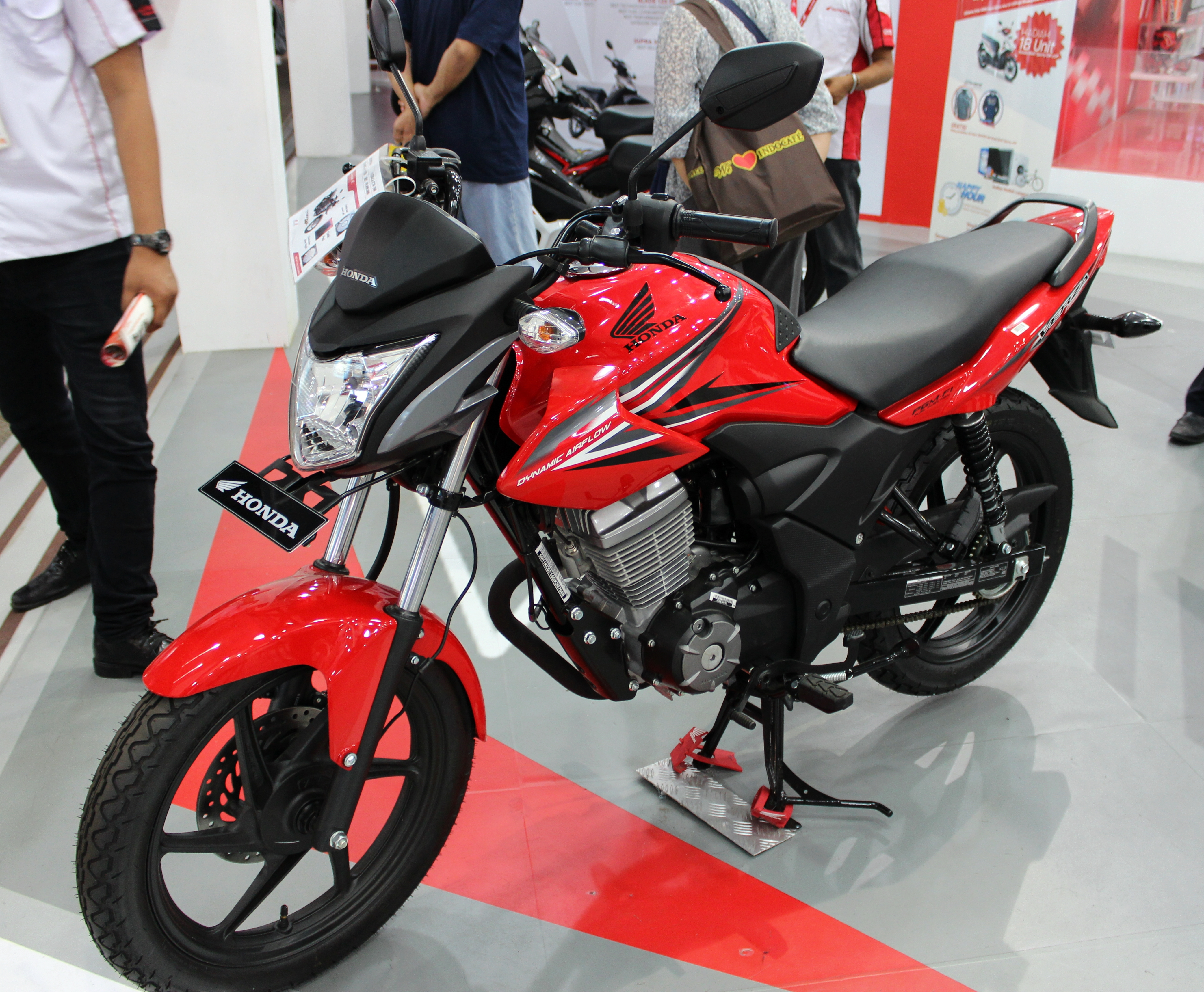 A Honda Verza 150 photographed in Jakarta Fair 2016, Jakarta, Indonesia on June 21, 2016.